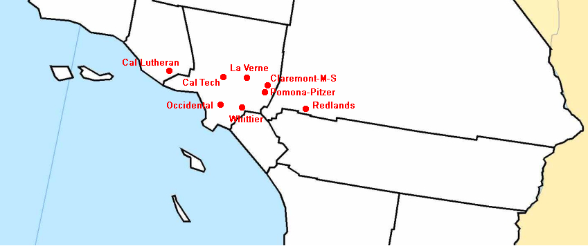 SCIAC dotmap created from blank commons map